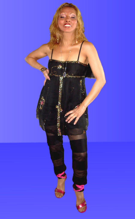 Picture of the brazilian singer Lady Zu, taken by Sandro Coutinho (aka user SambaSoul)